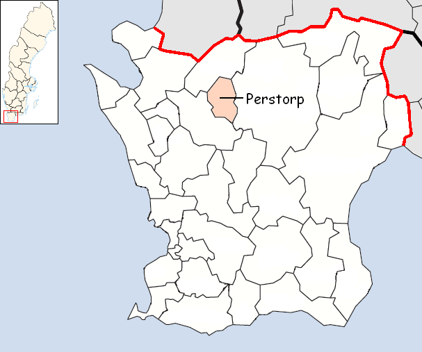 Perstorp Municipality in Scania, Sweden Designed by me. Mere outlines are a PD source from